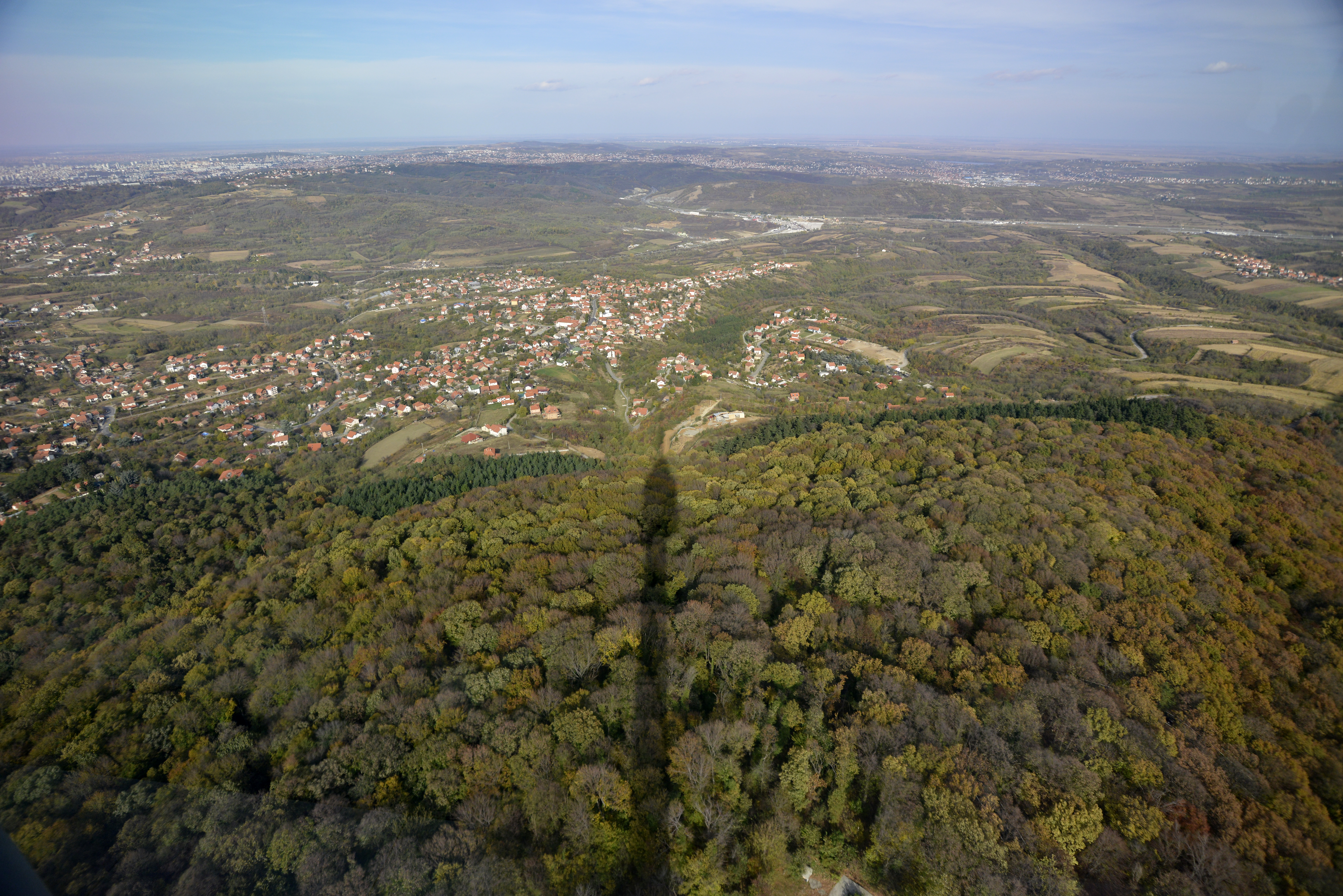 TV tower on Avala, Belgrade